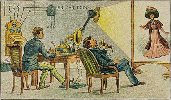 Video telephony as imagined in the year 2000, as imagined in 1910. From a French card.